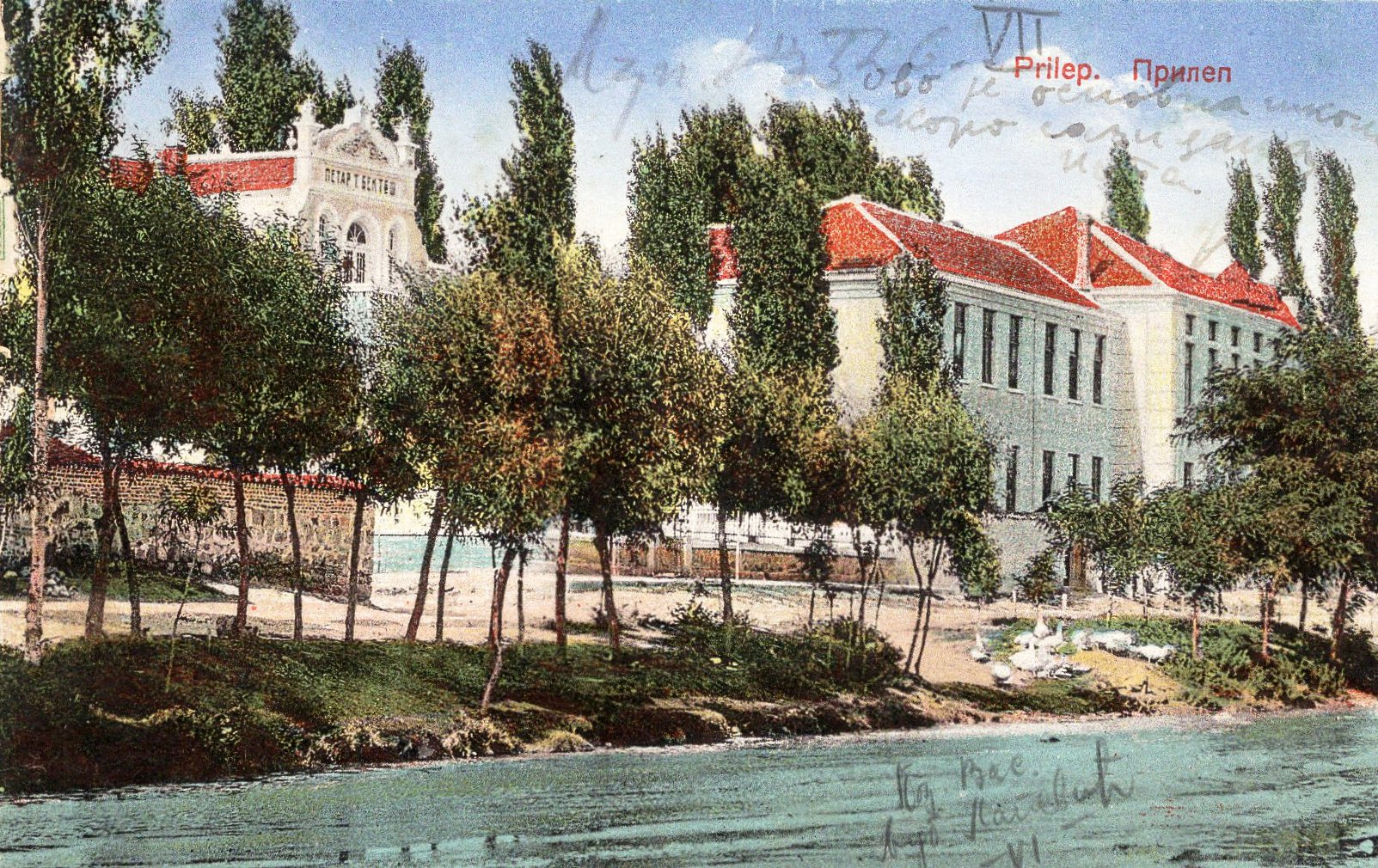 Postcard of Prilep, from 1920's This media file is produced by Wikipedian in Residence in Category:Wikipedian in Residence at DARM in 2016.